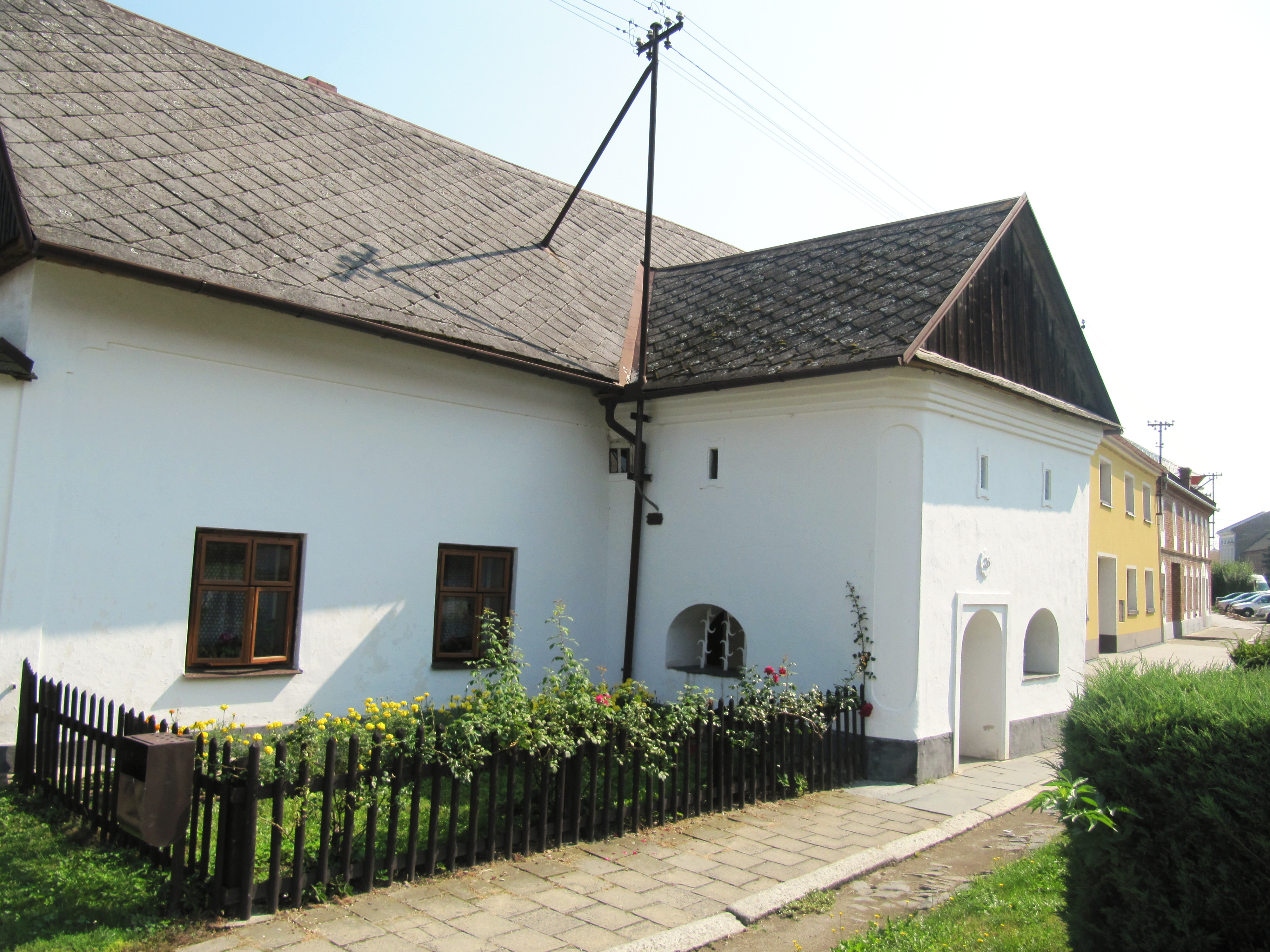 Příkazy in Olomouc District, Czech Republic. Rural homestead No. 26 with a typical porch of Haná.